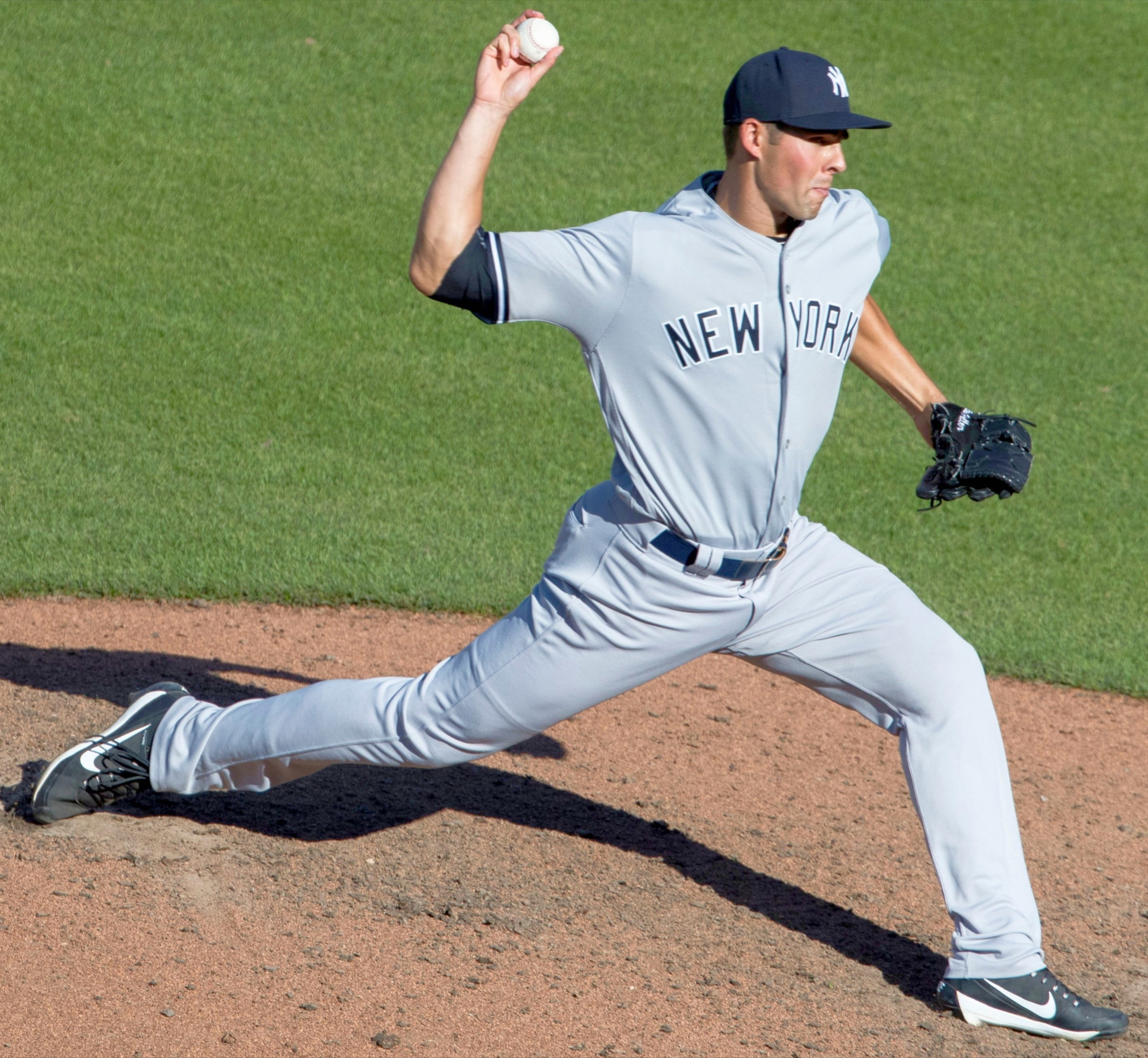 Ben Heller